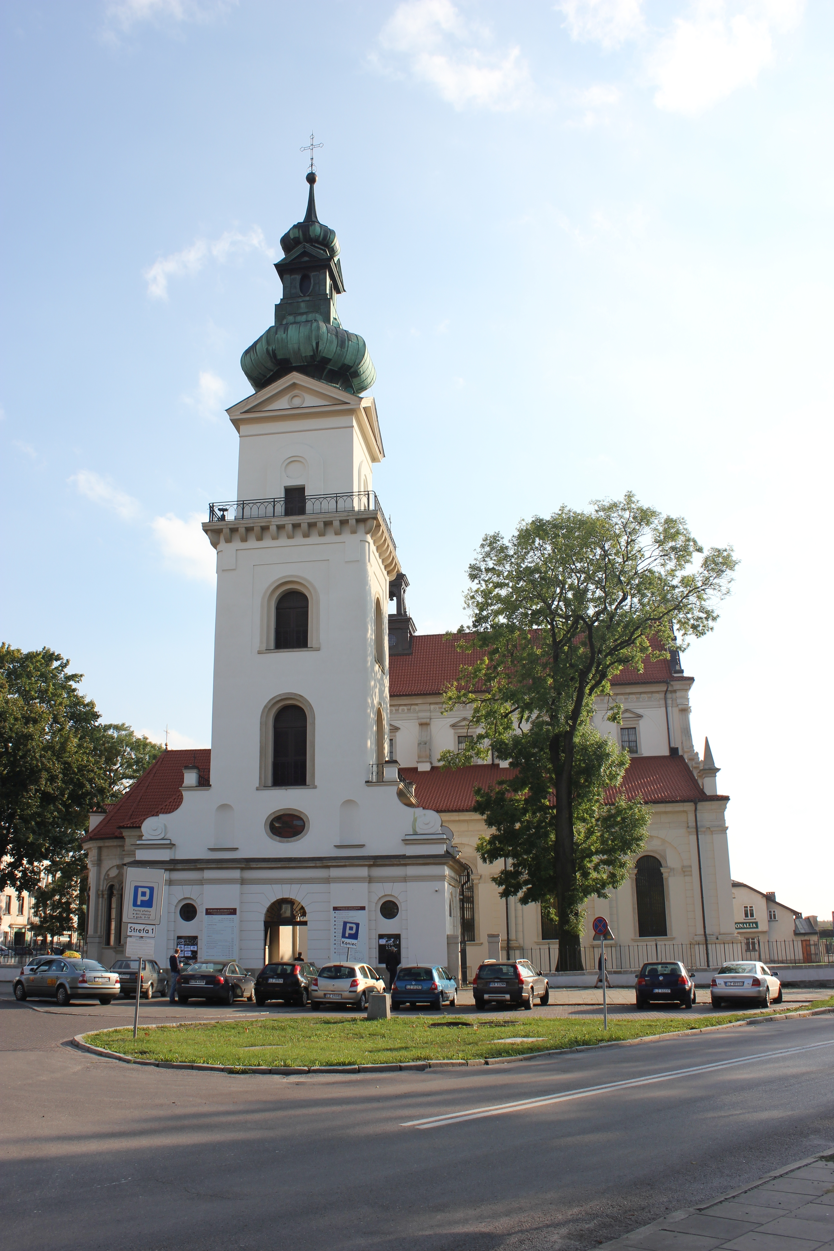 Zamość - cathedral